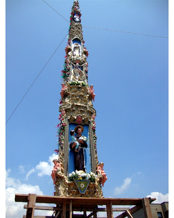 2011 Giglio - Franklin Square, NY The Giglio (o'giglio in Italian) is a 75ft tower build of wood and paper machee and carried by 100 men in the streets of Nola, Italy, Brooklyn, NY - USA and Franklin Square, NY - USA in honor of the patron Saint of Nola, St Paulinius (San Paolino))